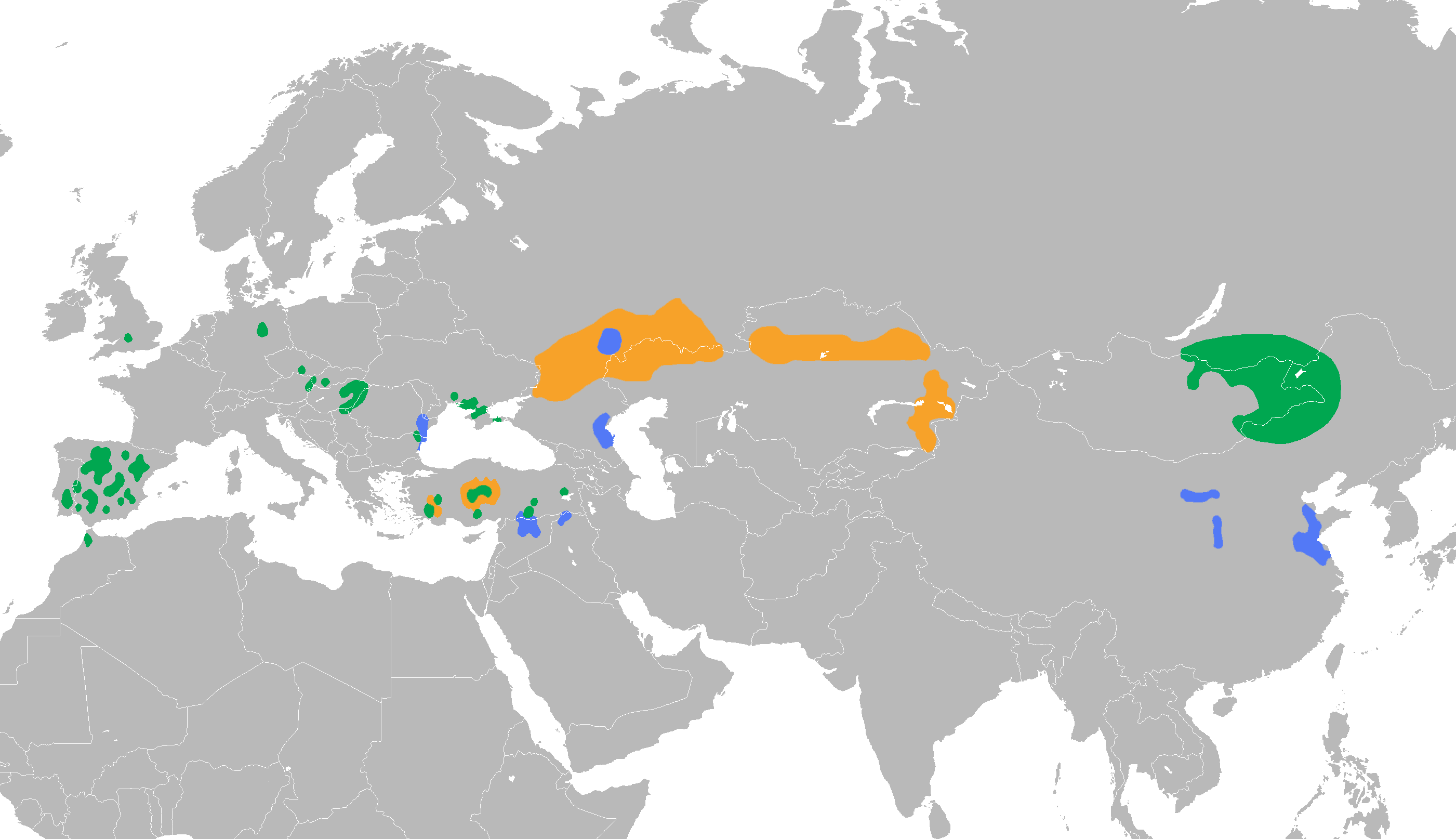 Great Bustard (Otis tarda) distribution map. Green - mostly resident population; Yellow - mostly summering grounds; Blue - mostly wintering grounds